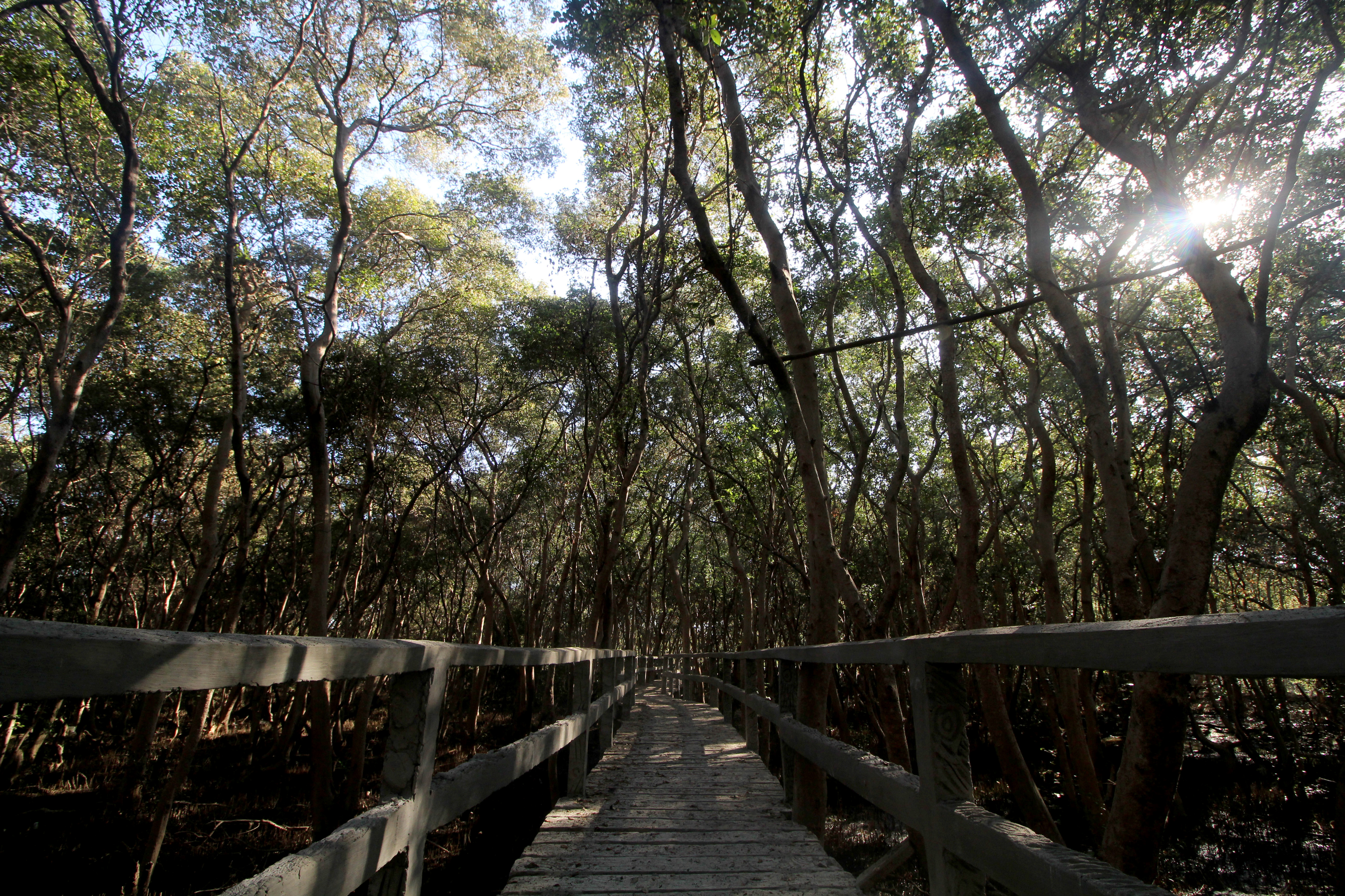 Las Piñas-Parañaque Critical Habitat and Ecotourism Area (LPPCHEA)